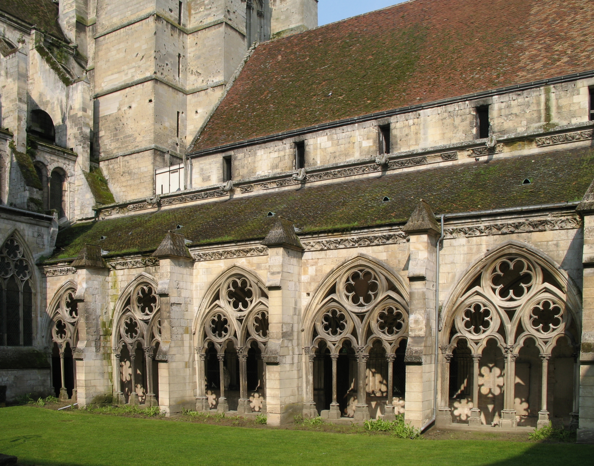 Noyon (département de l'Oise, France): cloister of the Notre-Dame Cathedral